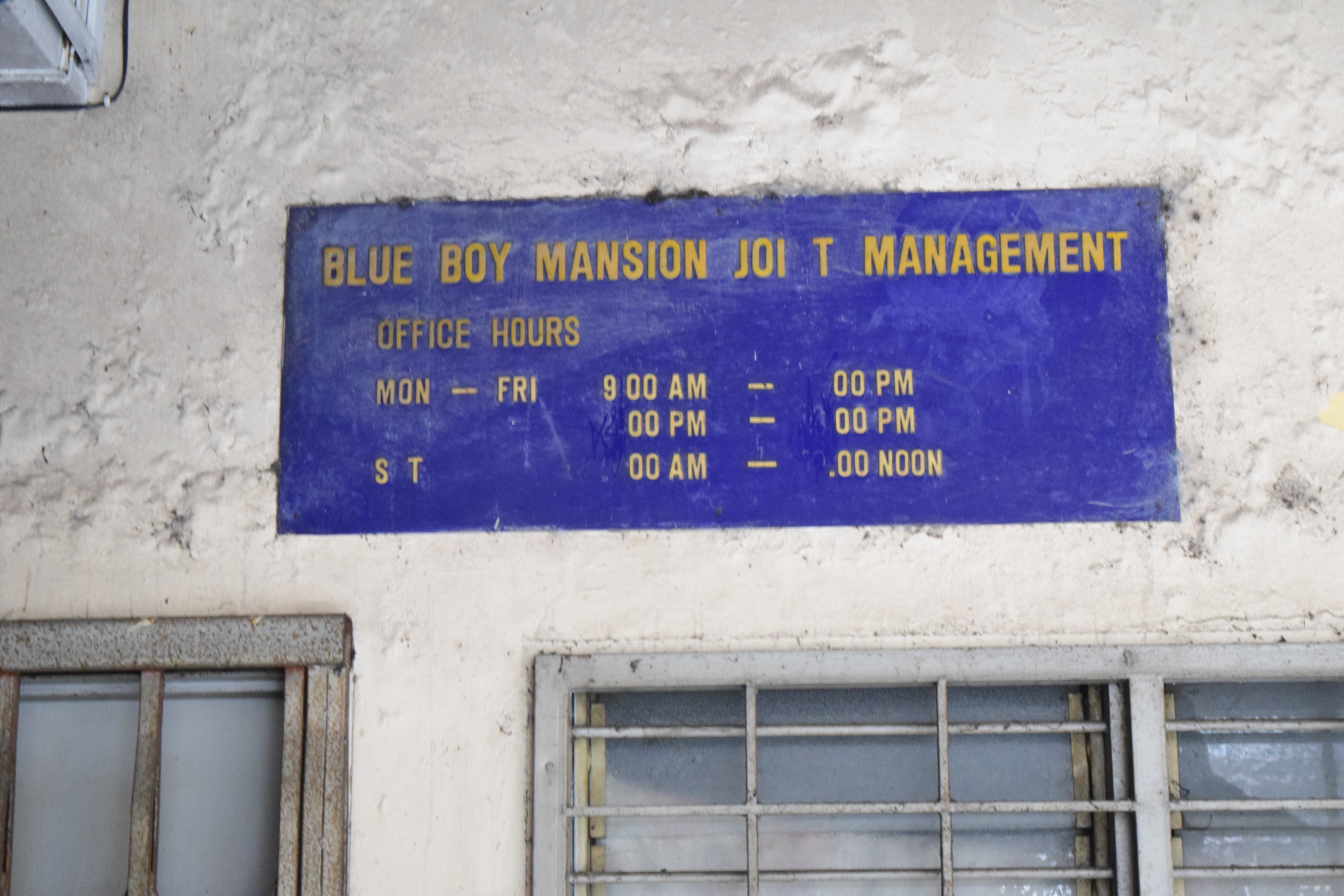 Blue Boy Mansion Management Office